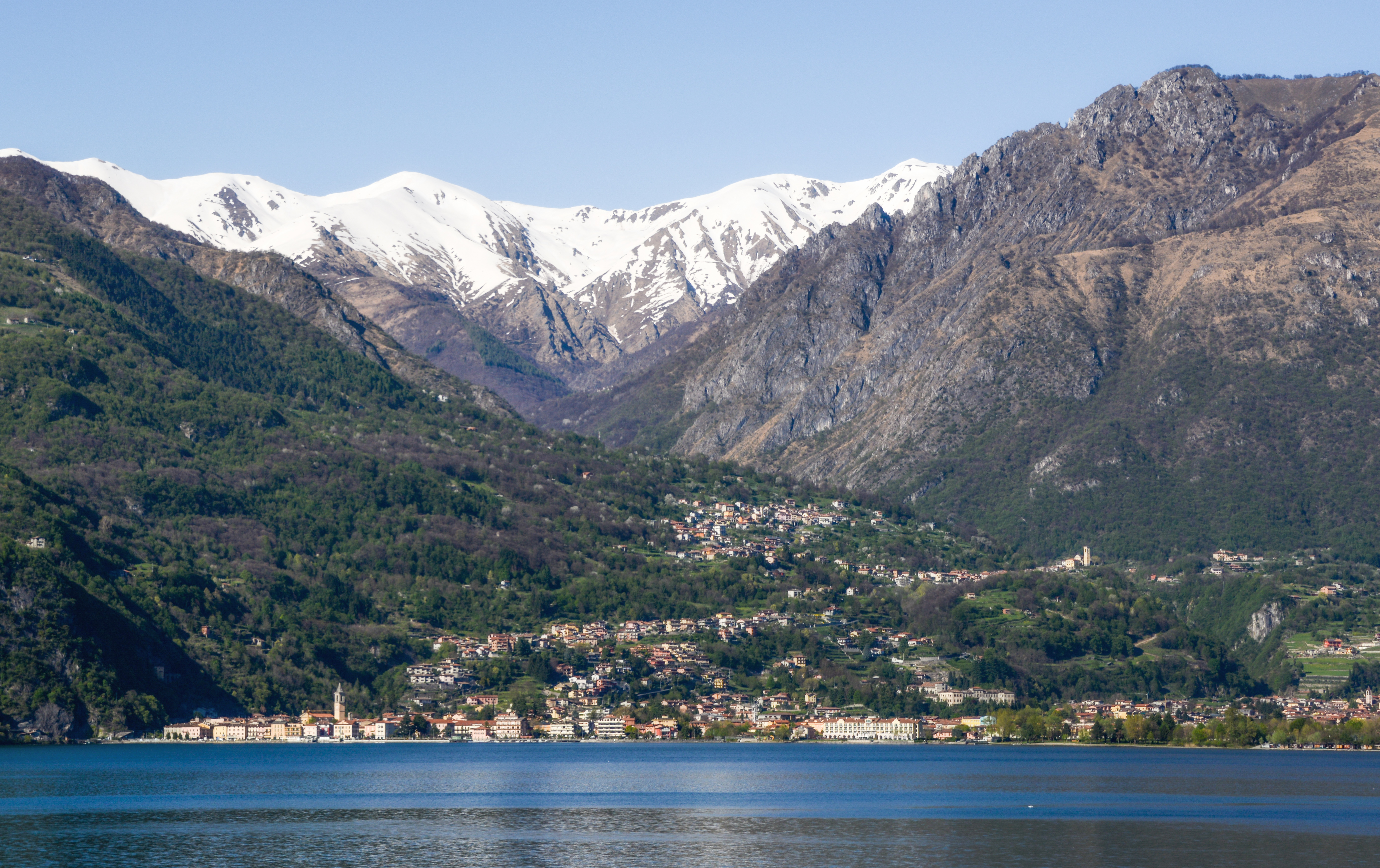 Porlezza seen from Osteno Lago Ceresio